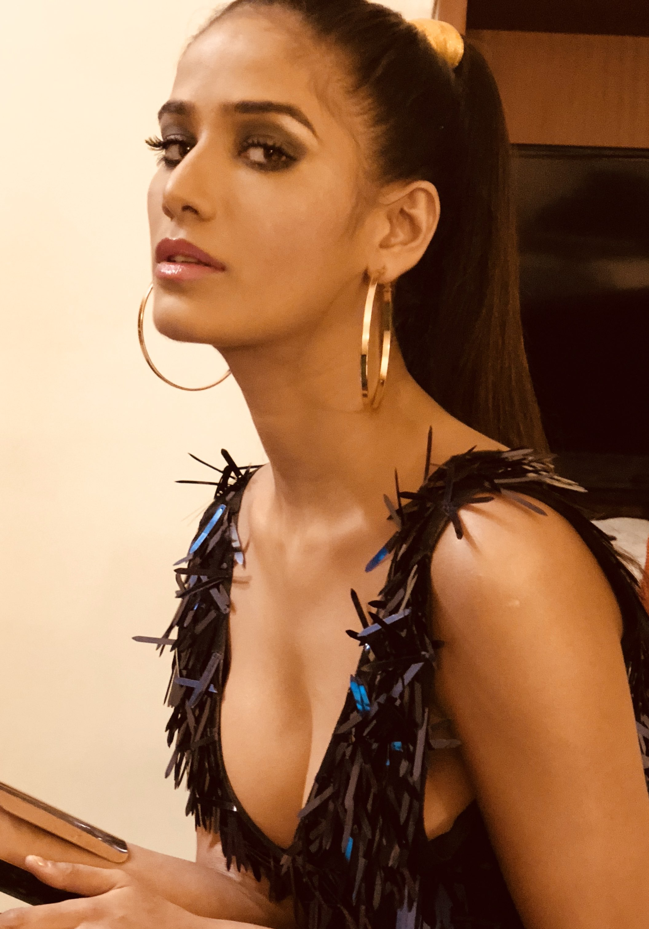 Poonam Pandey before the red carpet at Femina Miss India 2018